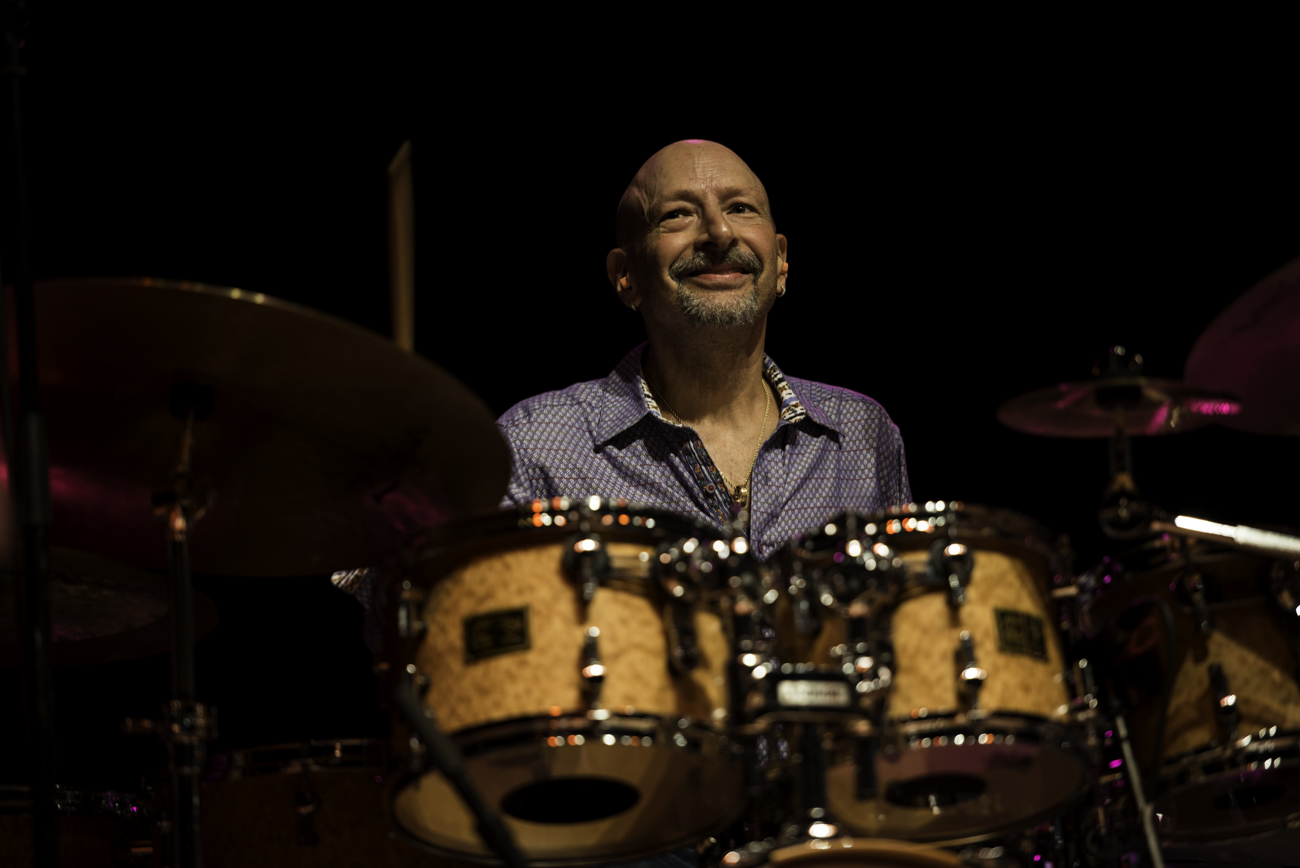 Mike Stern / Didier Lockwood Band featuring Tom Kennedy and Steve Smith